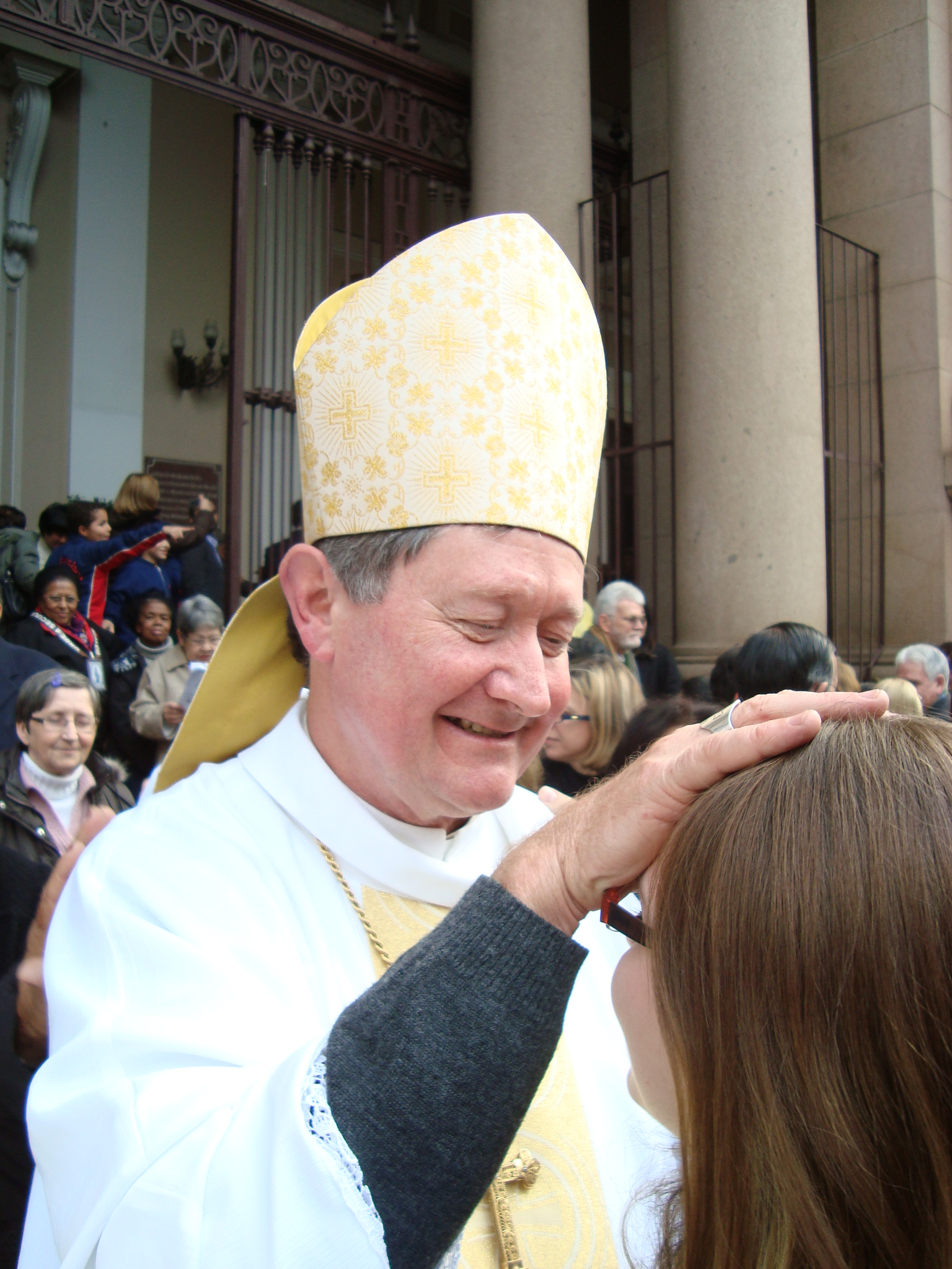 Jacinto Inacio Flach, Catholic Bishop of Criciuma, Brazil